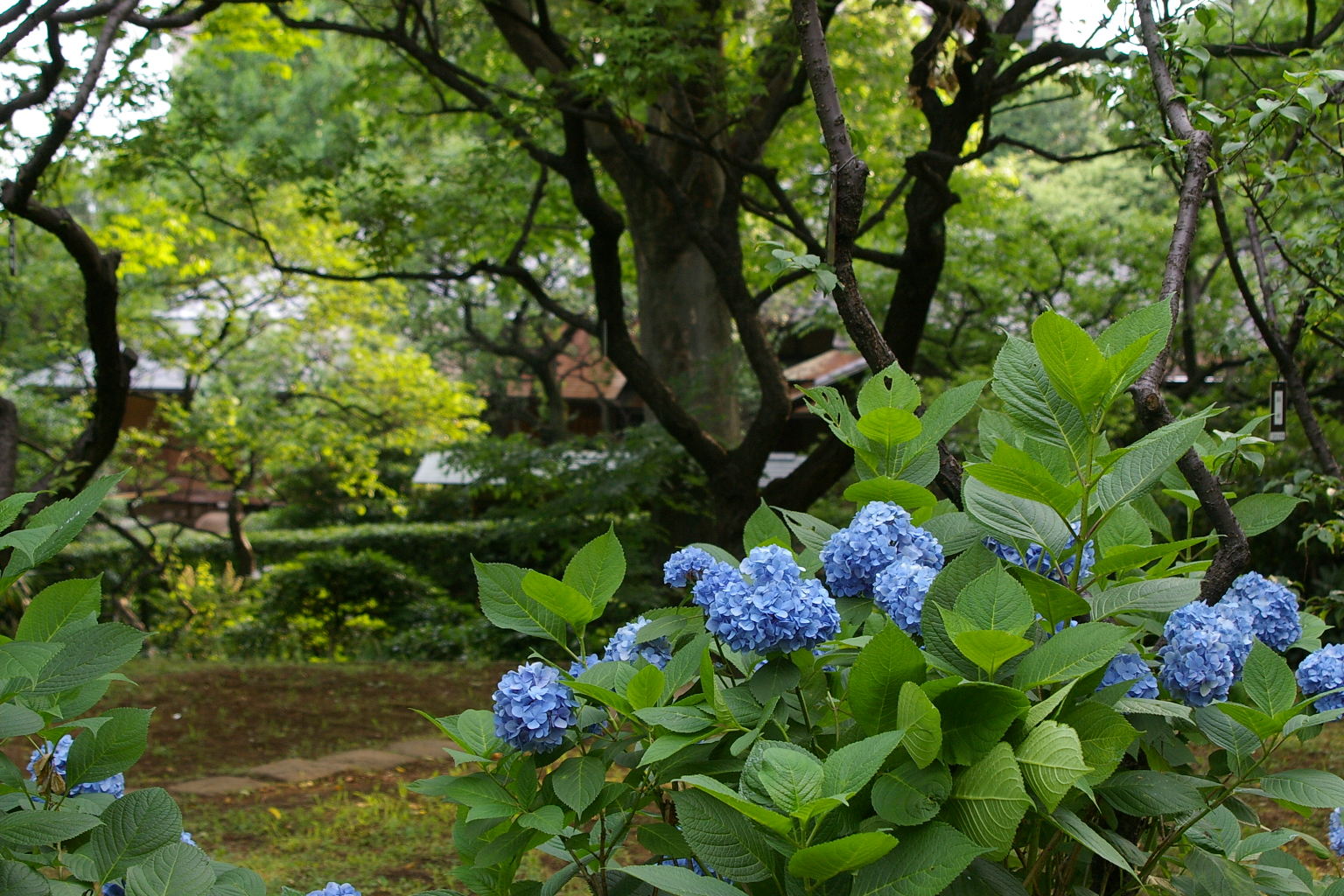 Hydrangea at the Hanegi Park in Setagaya Ward, Tokyo, Japan